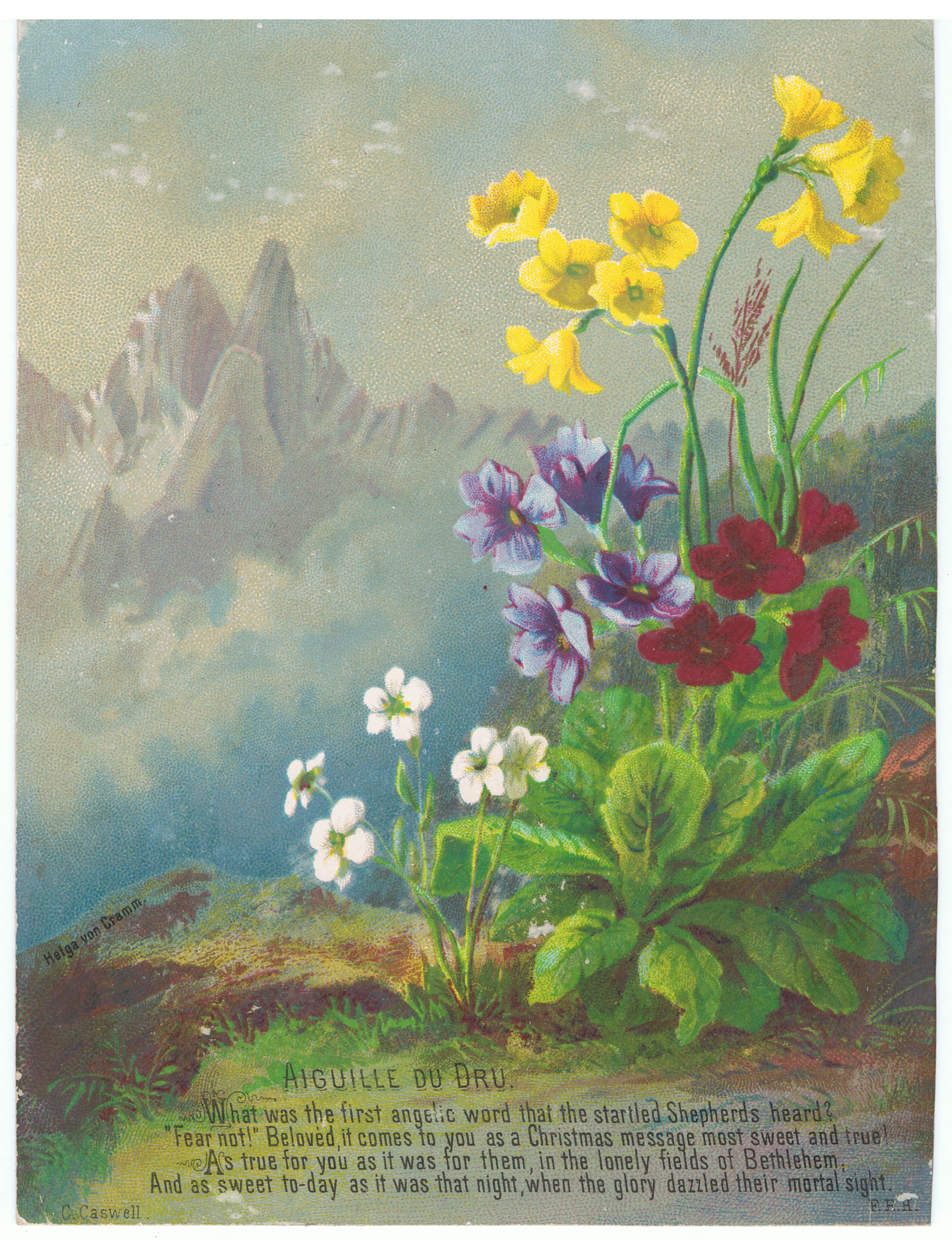 Scan (by me, R. de Salis, Rodolph (talk) 10:51, 16 January 2015 (UTC)), of Aiguille du Dru, chromolithograph, by Helga von Cramm, with Frances Ridley Havergal verse, 1870s. With family greeting L.A. Brocklehurst Christmas 1879. (11 x 14.5 cm).